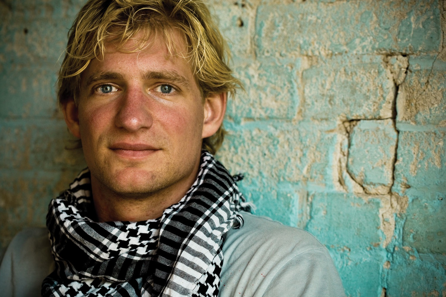 A photo of crowd funding expert Pim Betist